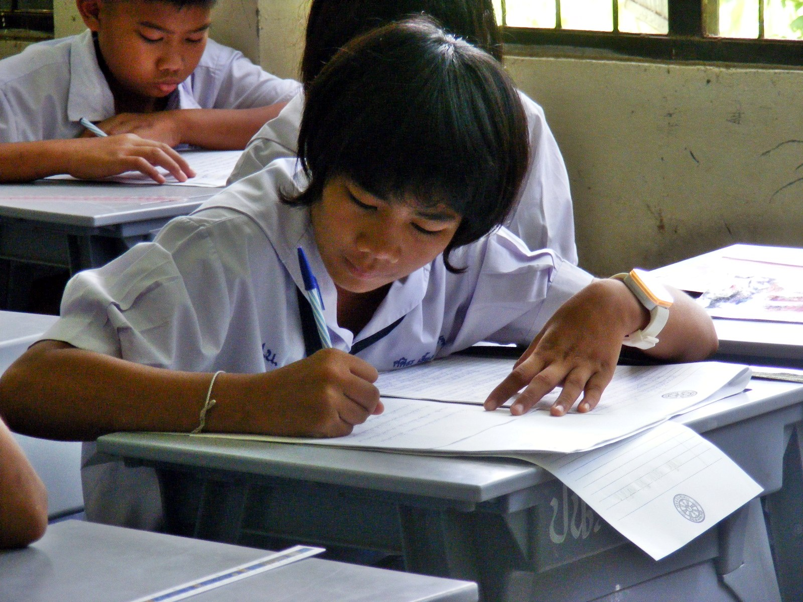 student in Pa Khanun Charoen Witthaya School in Ban Pa Kanun, Khung Taphao subdistrict, Mueang Uttaradit, Uttaradit Province, Thailand.